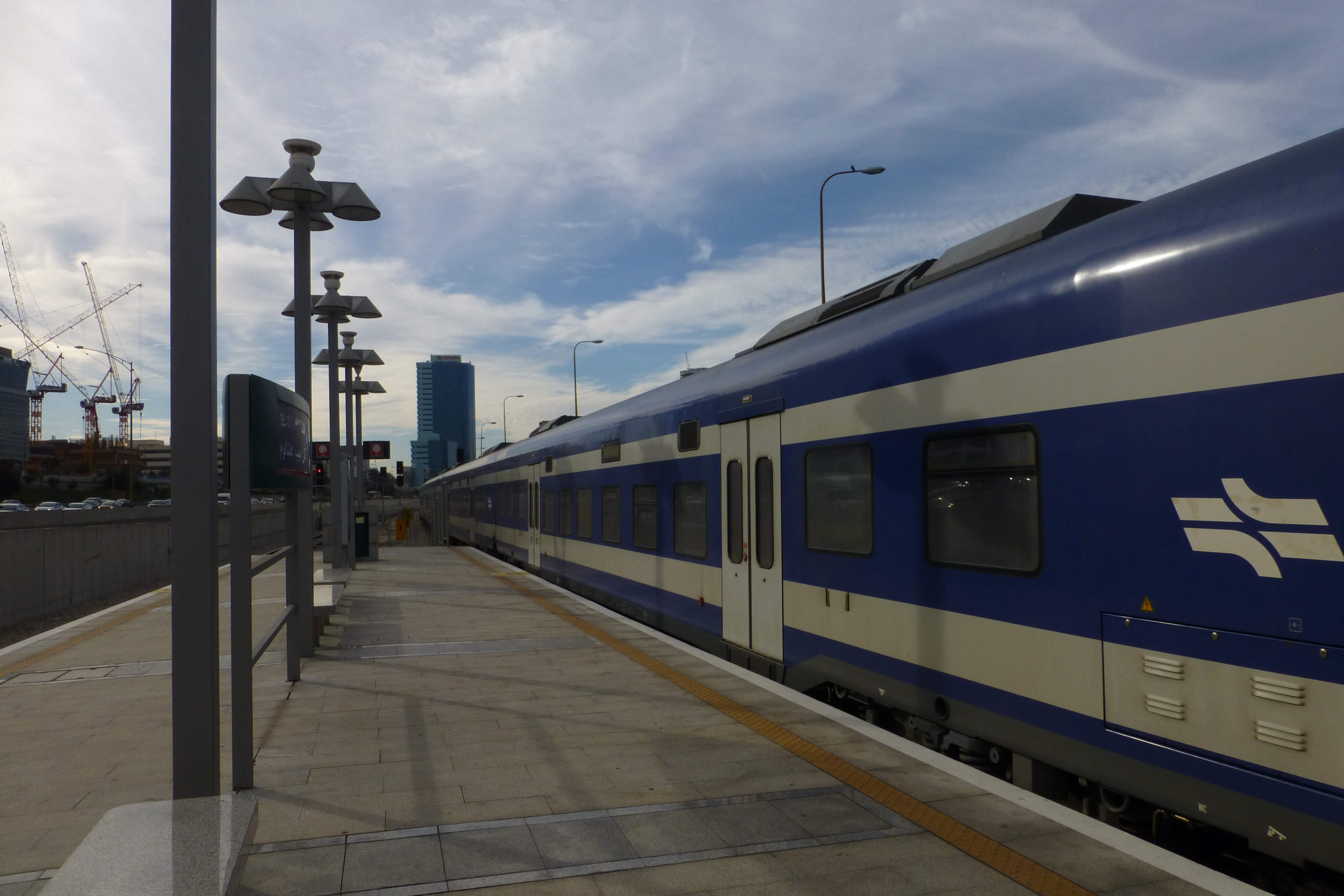 Tel Aviv HaShalom train station